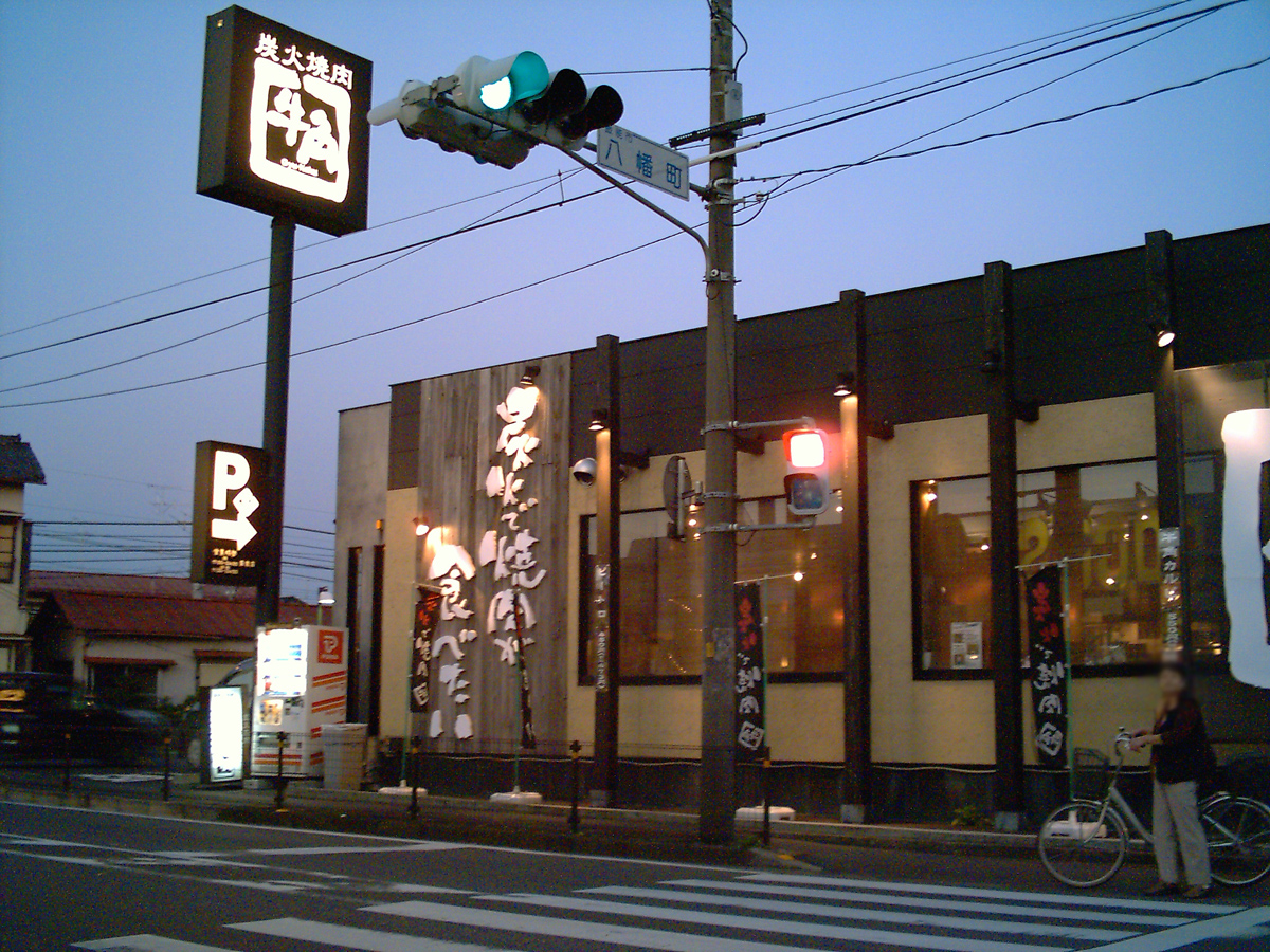 gyukaku_Restaurant_in_Japan